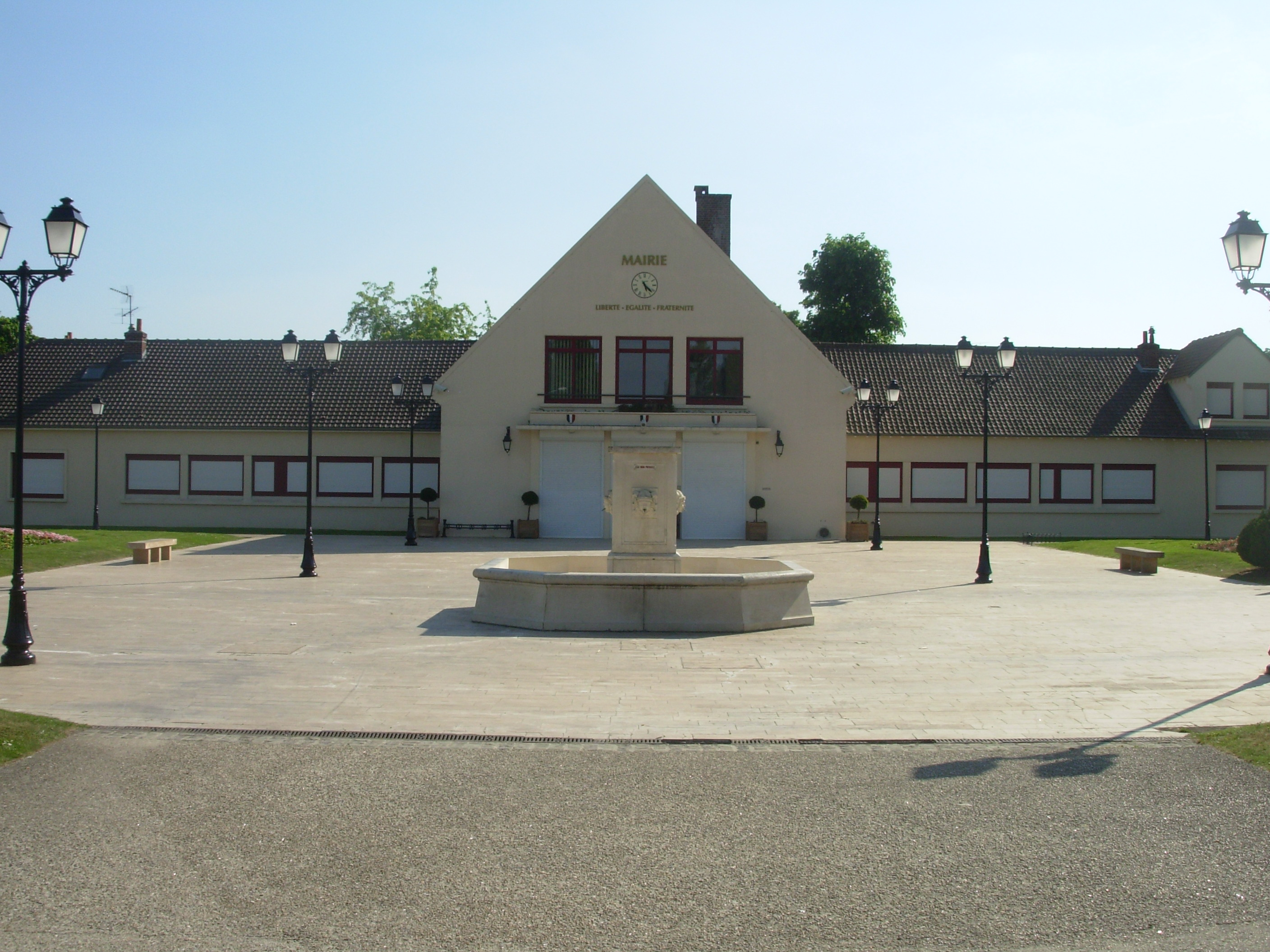 Marolles-en-Hurepoix (Essonne) town hall